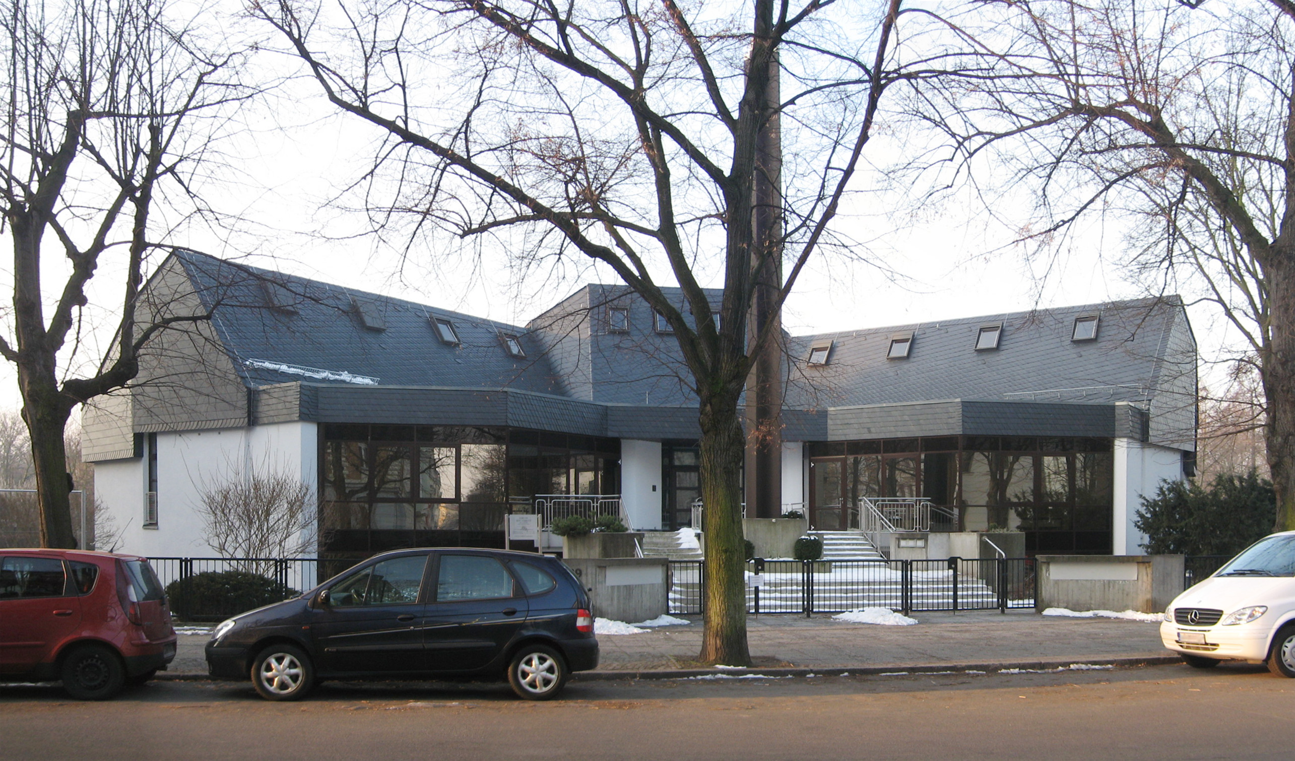 The Church of Jesus Christ of Latter-day Saints Leipzig-Schleussig, Oeserstrasse 39